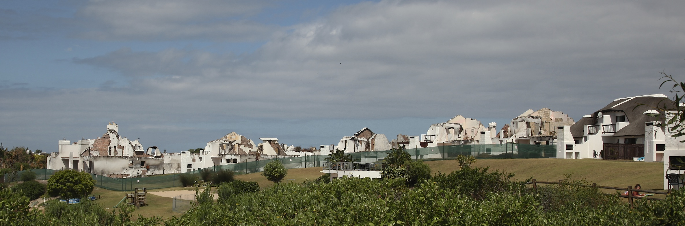 Ruins left behind after a fire on the 11th November 2012 that destroyed more than 70 homes in St Francis Bay, Eastern Cape, South Africa